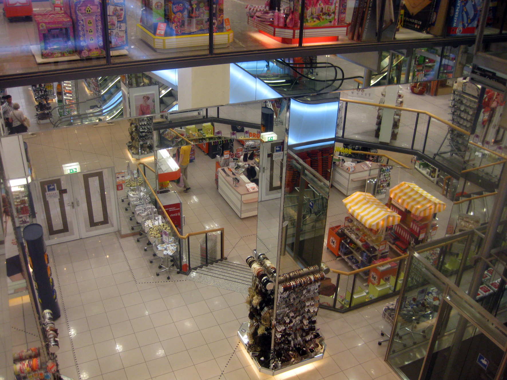 Drogerie Müller, Kassel